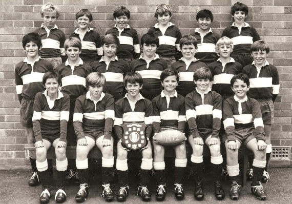 Tony Ridnell at Mosman Prep